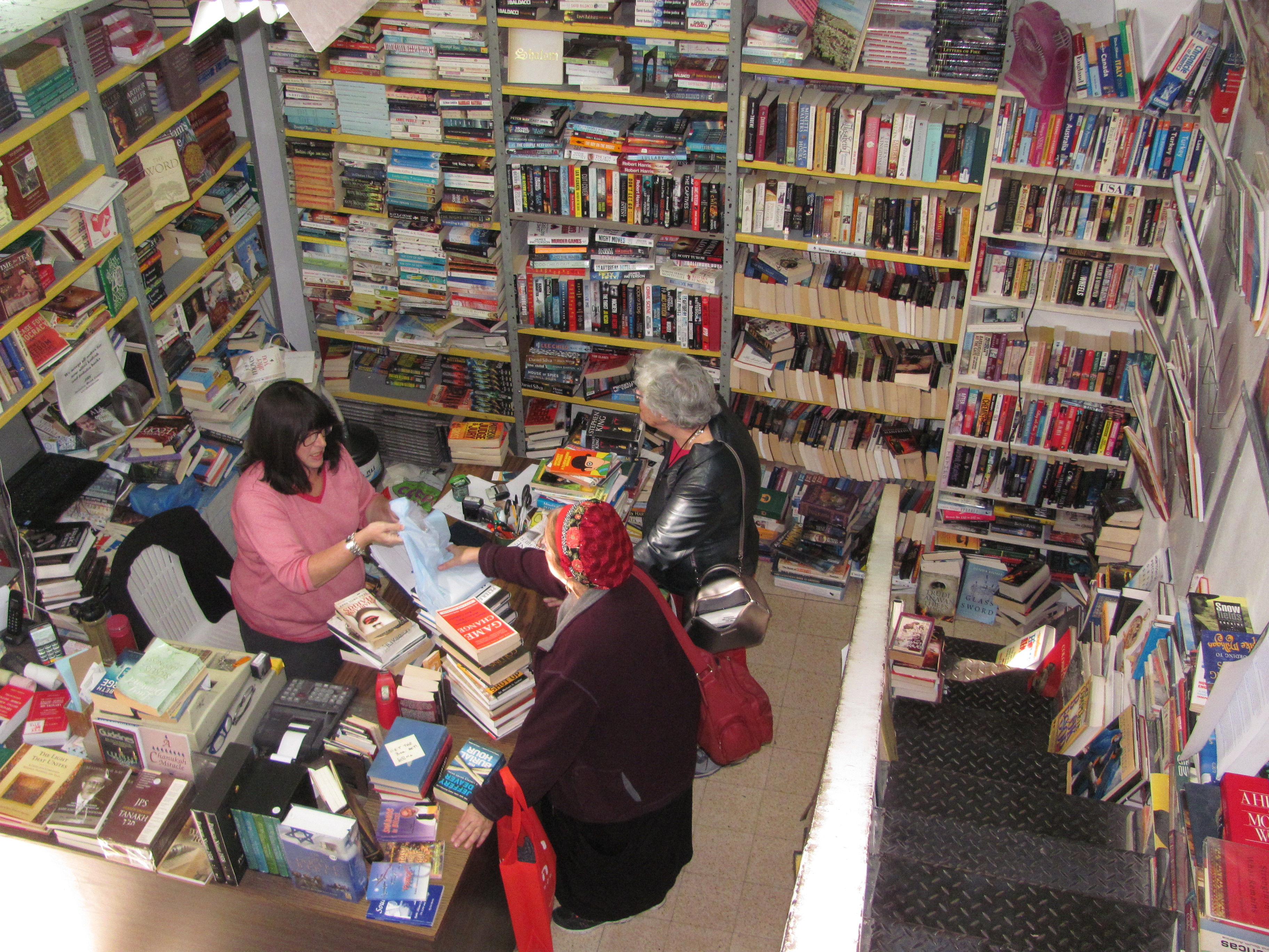 Interior of Sefer ve Sefel secondhand bookshop, 2 Ya'avets Street, Jerusalem, Israel